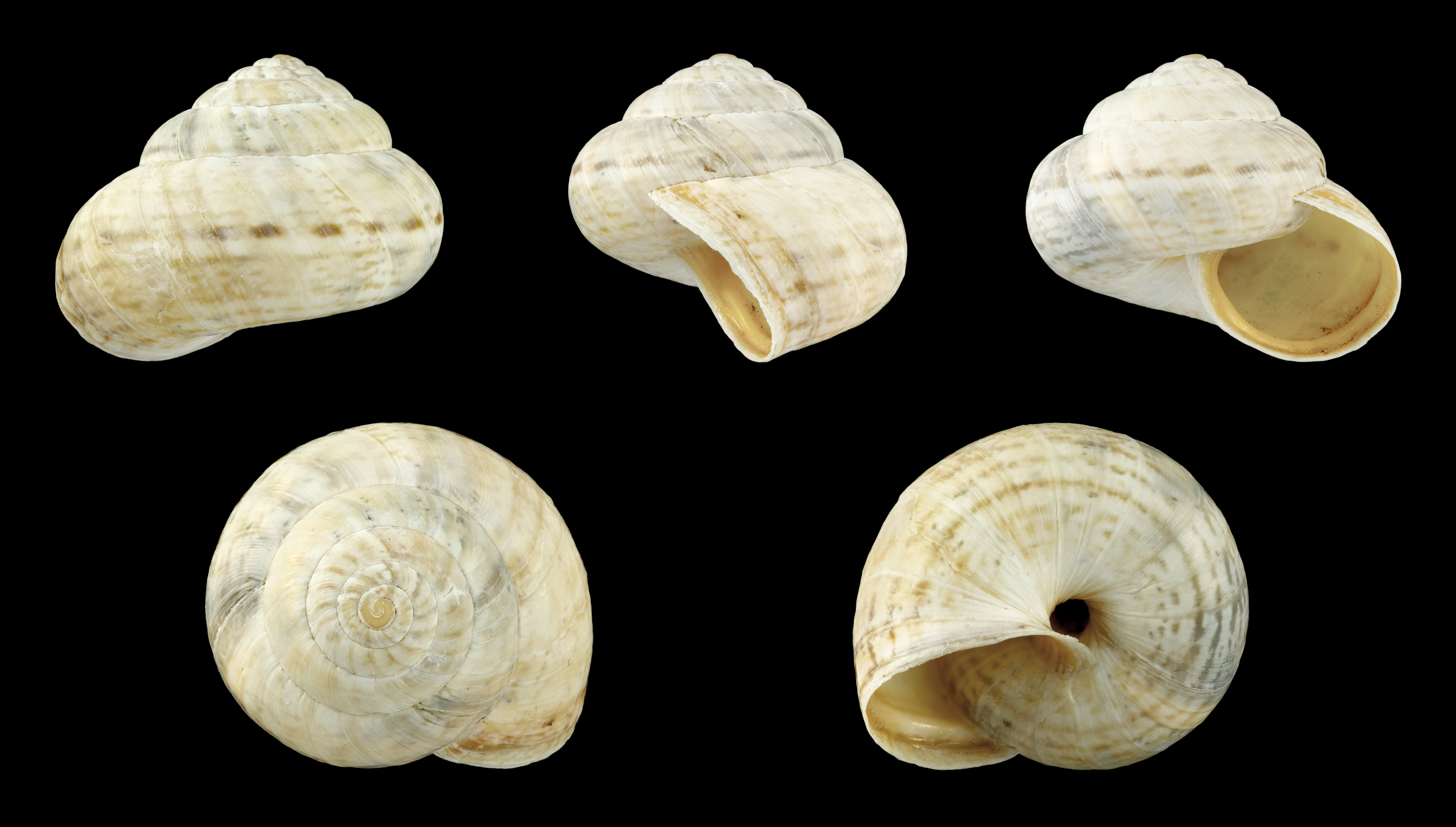 Vineyard Snail, pale form; Diameter 1.6 cm; Originating from Grimaud, Camping “Les Naiades”, Dept. Var, France; Shell of own collection, therefore not geocoded.